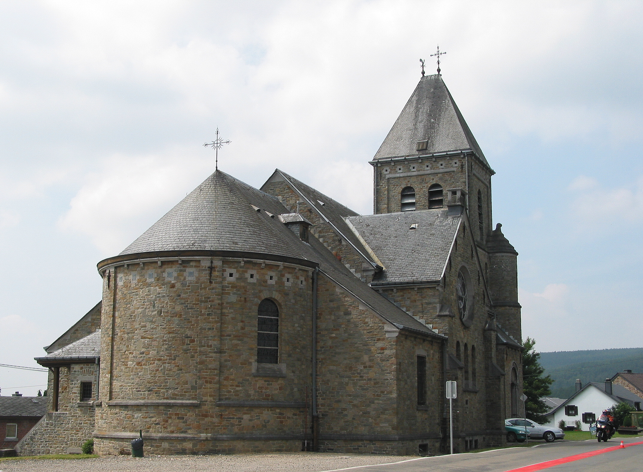 Stoumont (Belgium), the St. Hubert church.